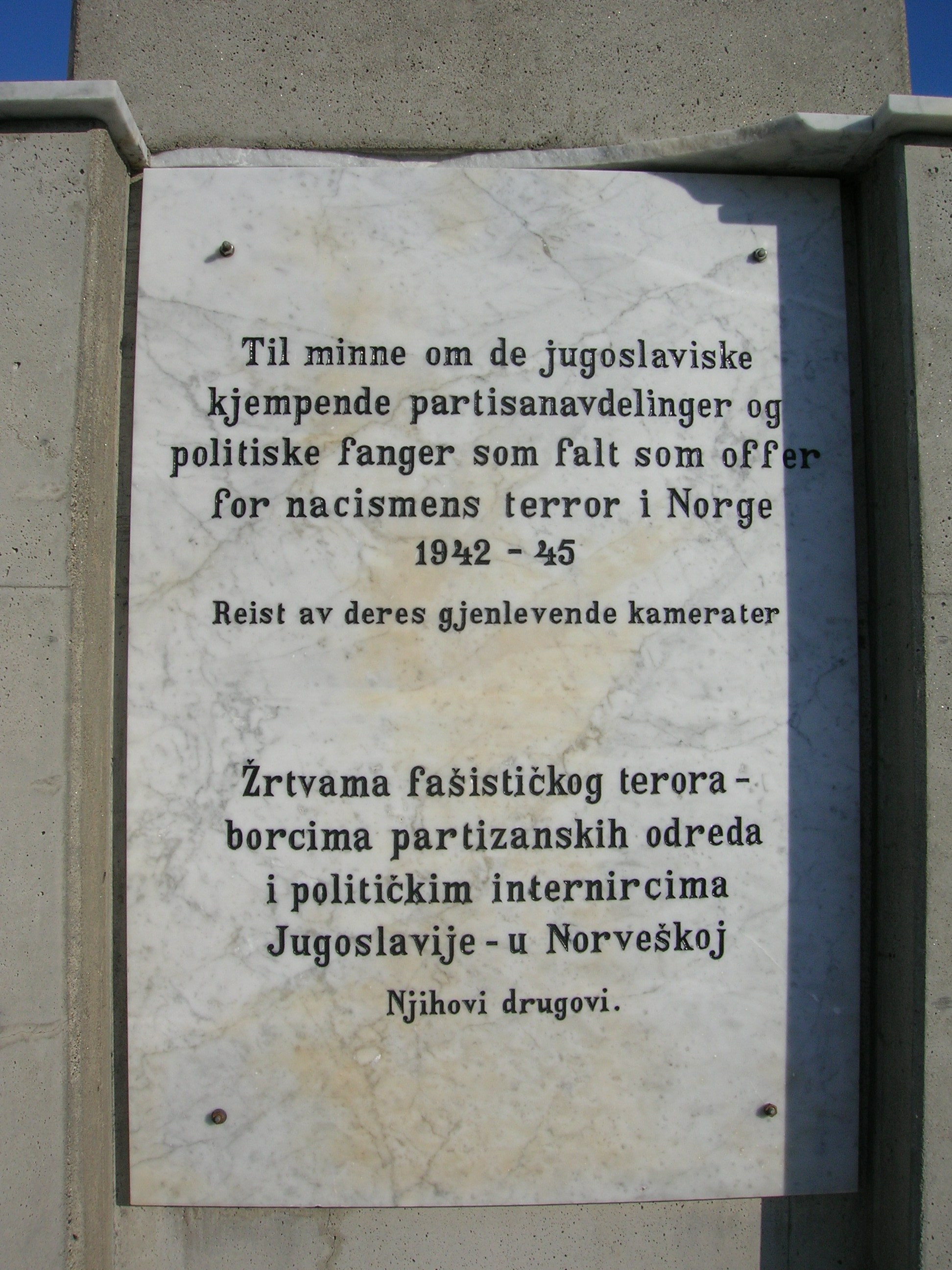 A war memorial over war prisoners who lost their lives during slave labour for the Nazi occupation force during World War II, when building the road over Saltfjellet (Blodveien). The Arctic Circle on Saltfjellet, Rana municipality, Norway. Photo on 16 August, 2008 with a Nikon Coolpix 5600 5,1 Megapixel camera.